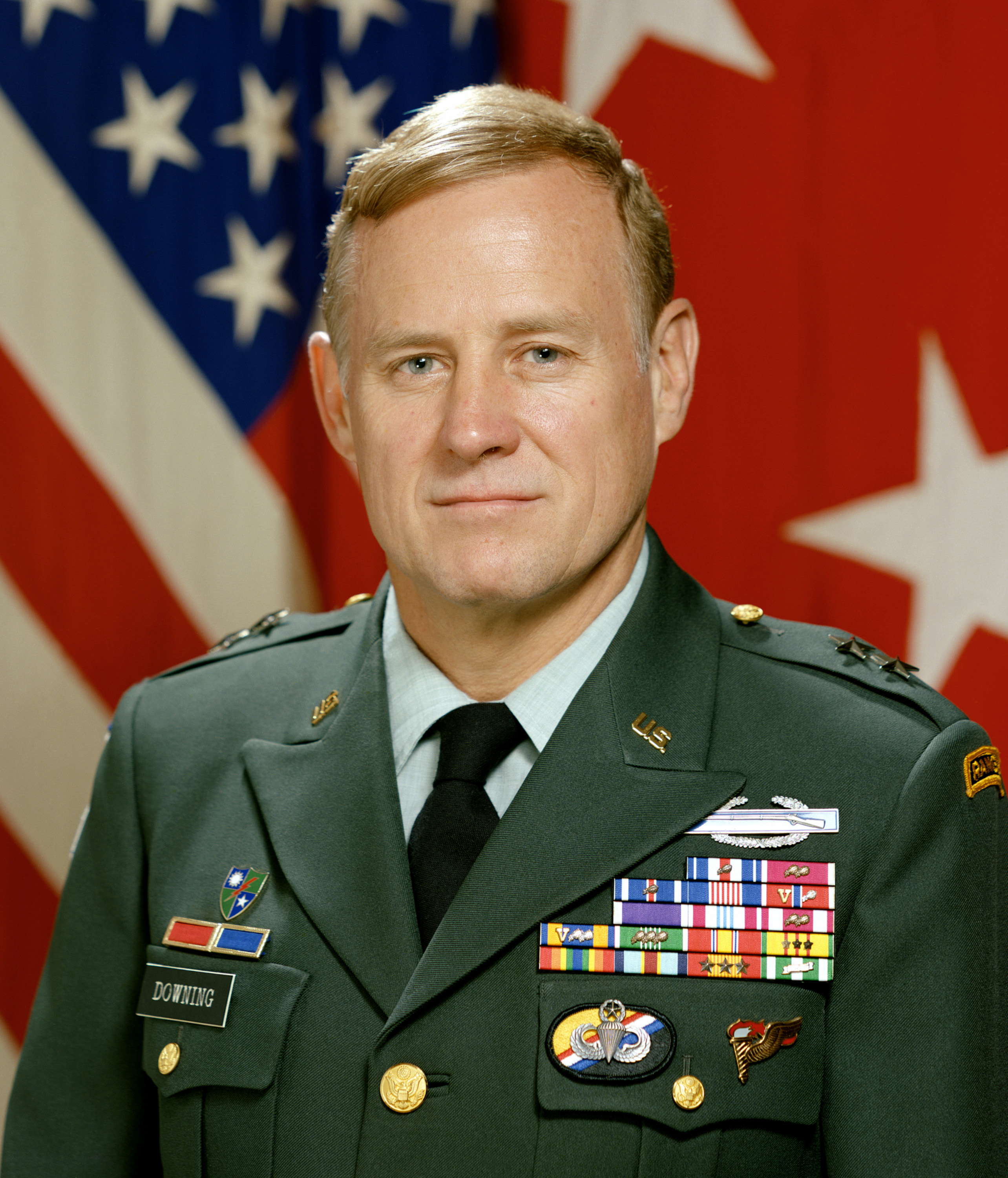 General Wayne A. Downing, USA, commander U.S. Special Operations Command (1993-1996); portrait as Major General, 1988